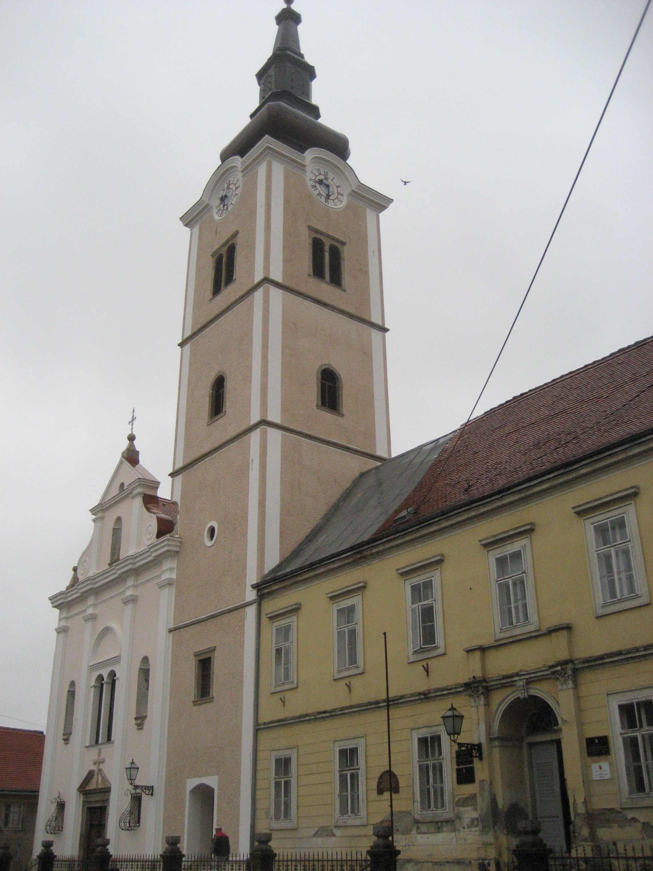 crkva sv. Ane u Križevcima / Catholic church in Križevci City Centre, Croatia